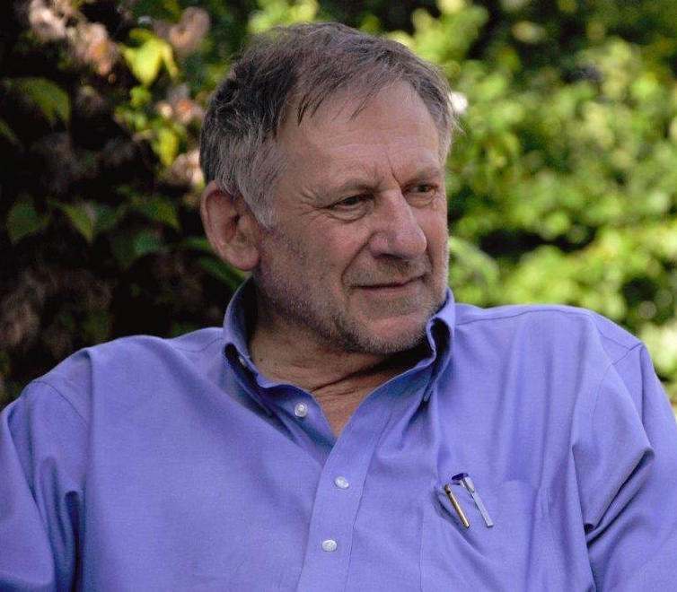 The architect Christopher Alexander in 2012.